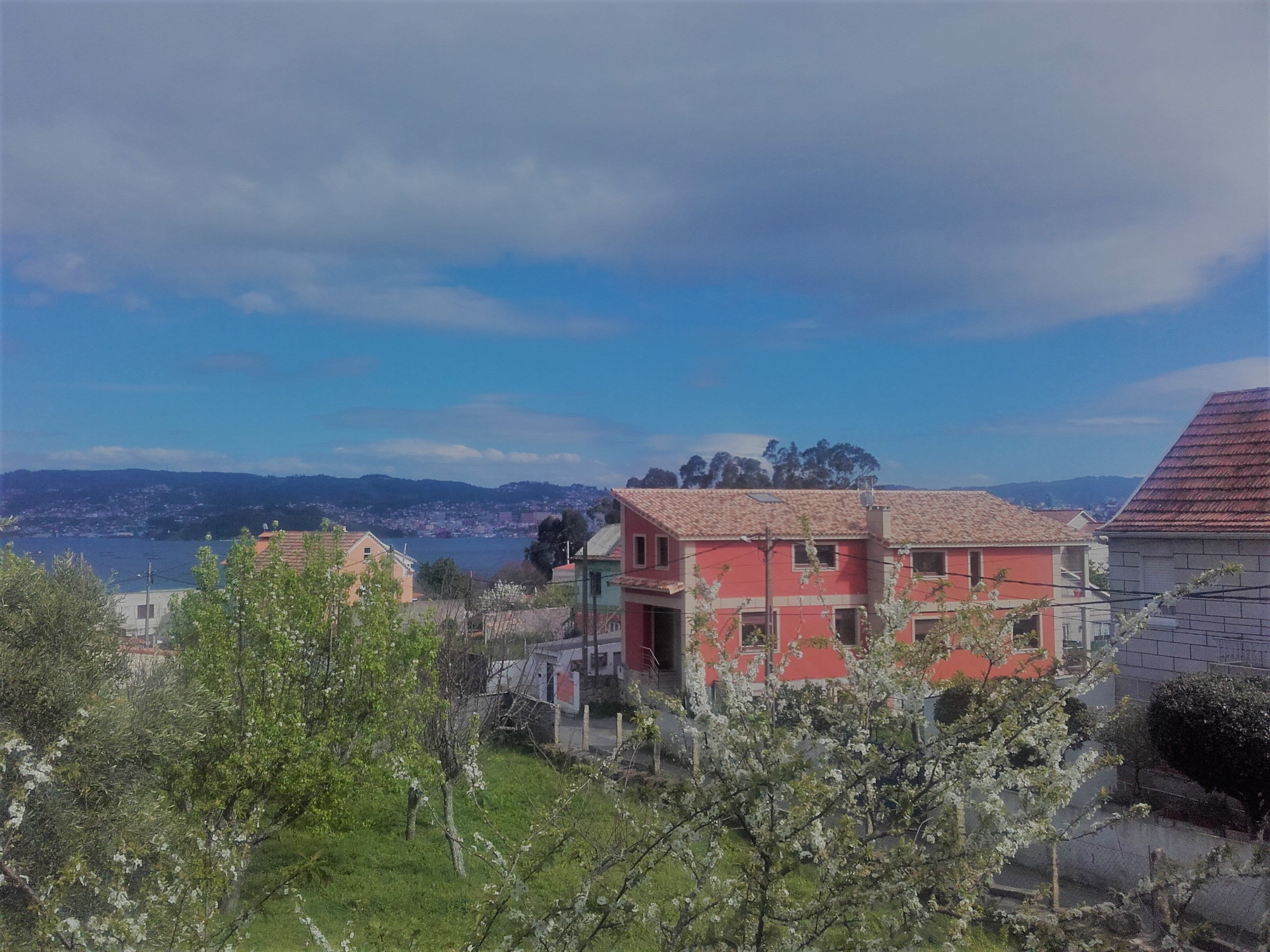 Vilela, Tirán, Moaña (Galicia).